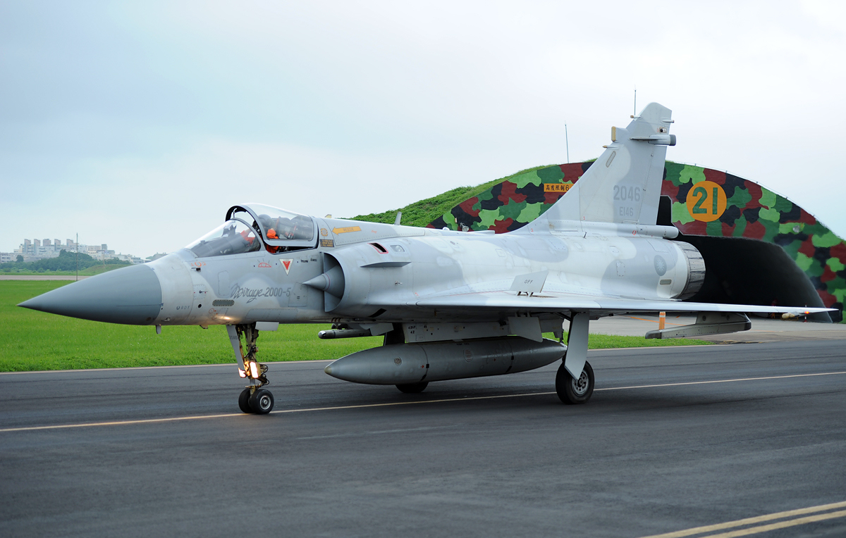 Republic of China Air Force Dassault Mirage 2000